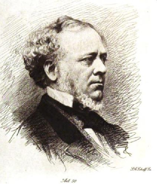 Etching of Boston publisher William Davis Ticknor by S.A. Schoff. This image was used in "Hawthorne and His Publisher" by Caroline Ticknor and "A Brief Biographical Sketch of William Davis Ticknor" by Howard Malcolm Ticknor.